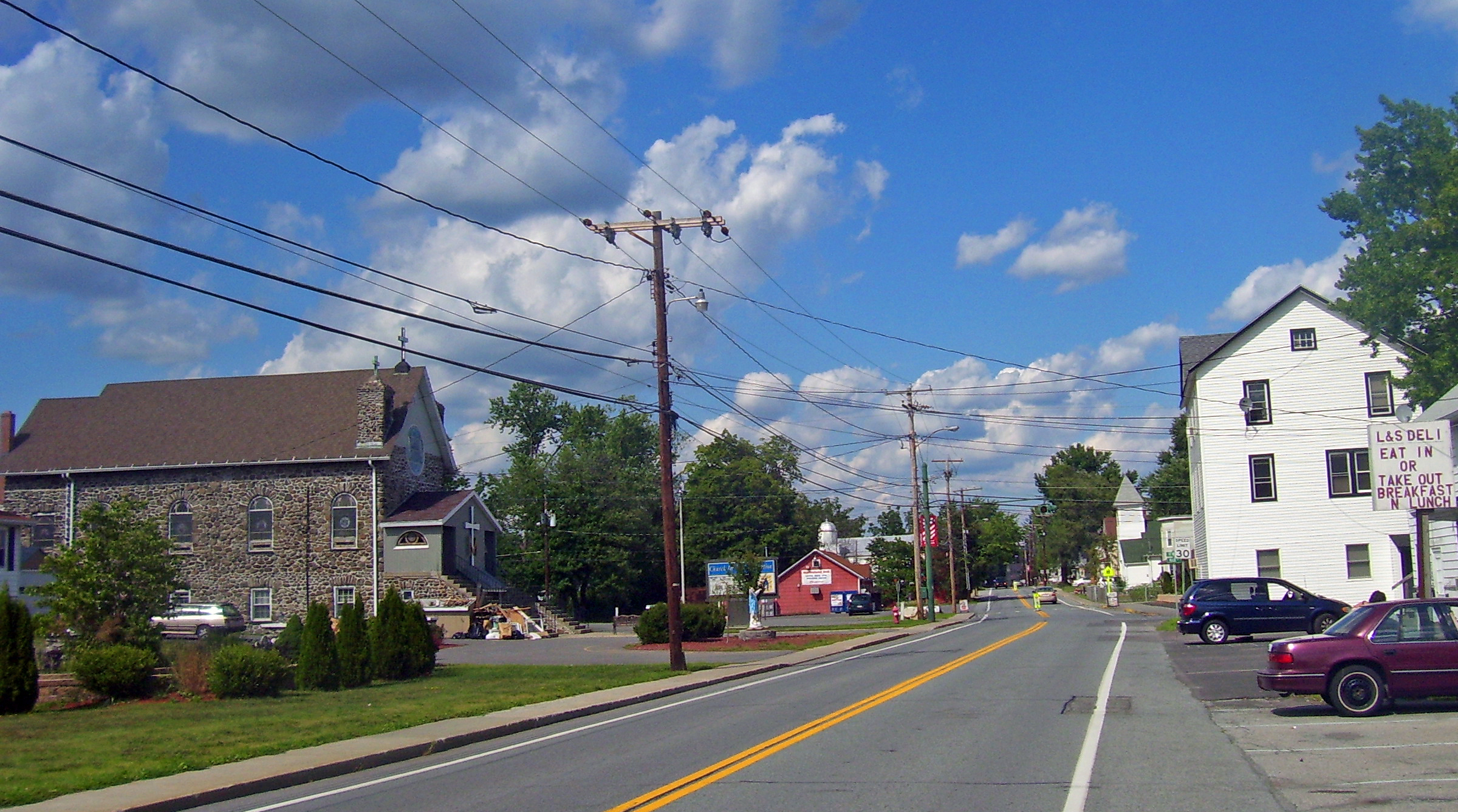 View north along NY 208 in Maybrook, NY, USA